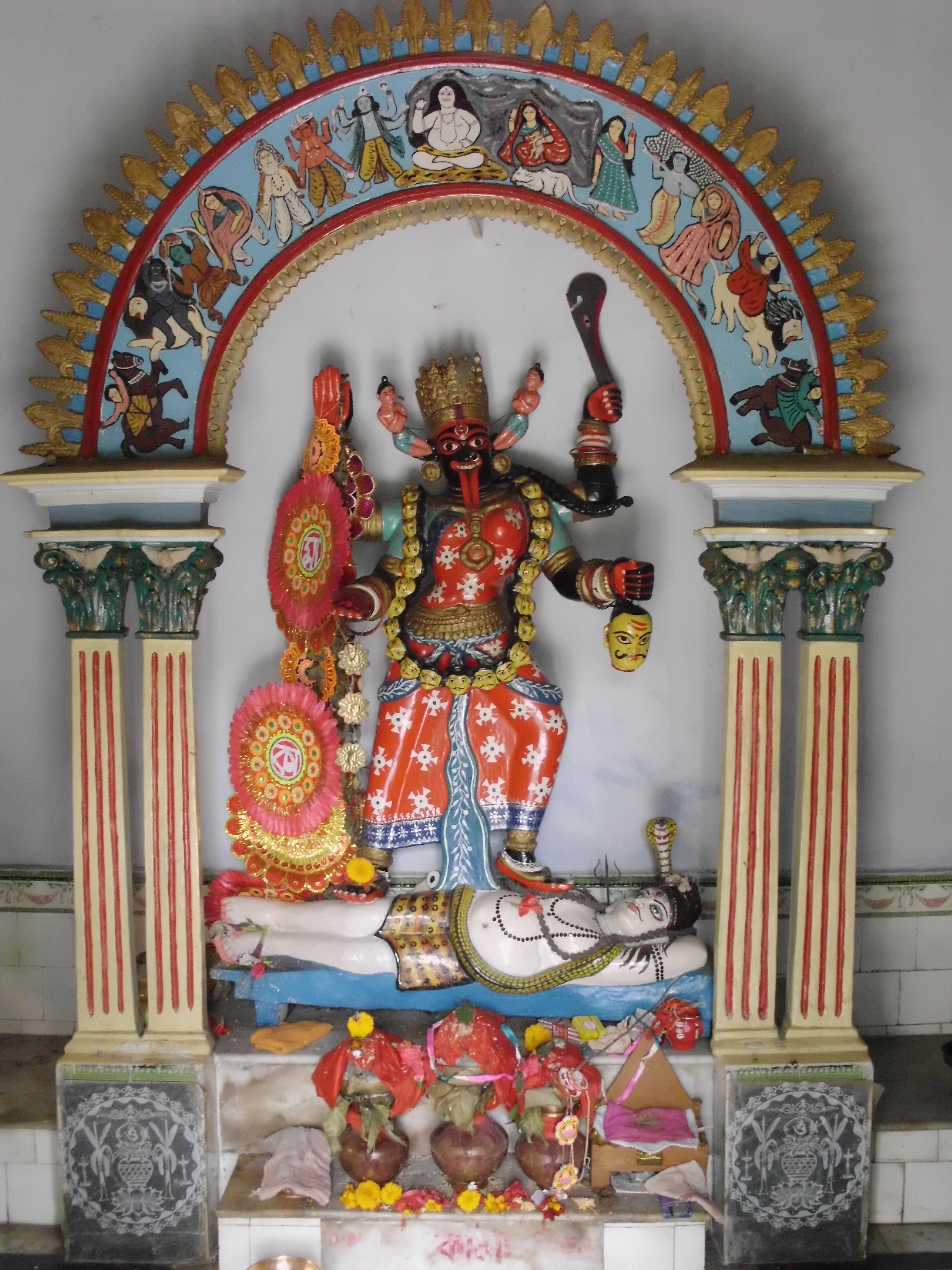 Kali Ma1